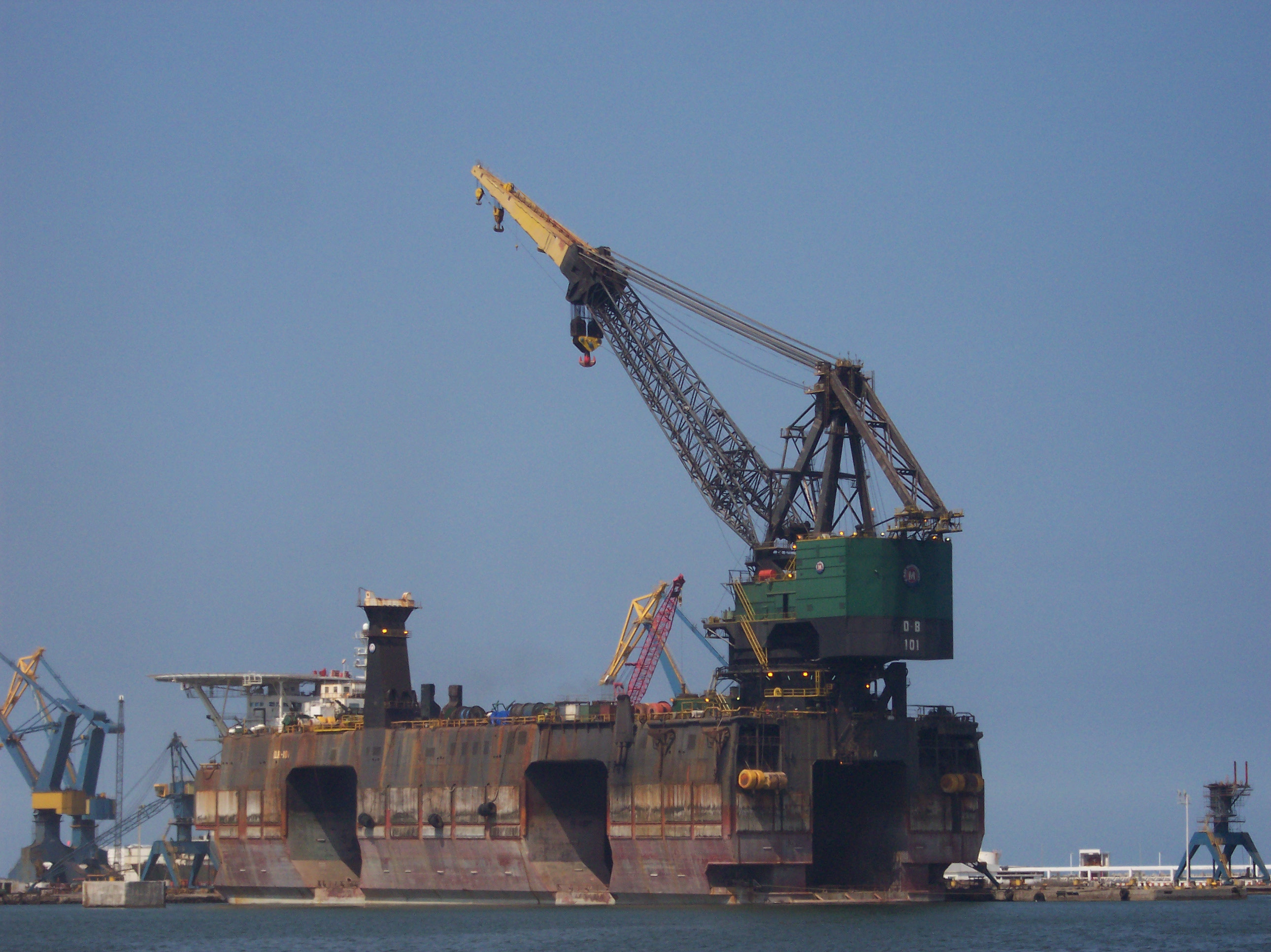 McDermott crane vessel DB 101 (ex Narwhal) Photo was taken in Veracruz Port, Mexico.